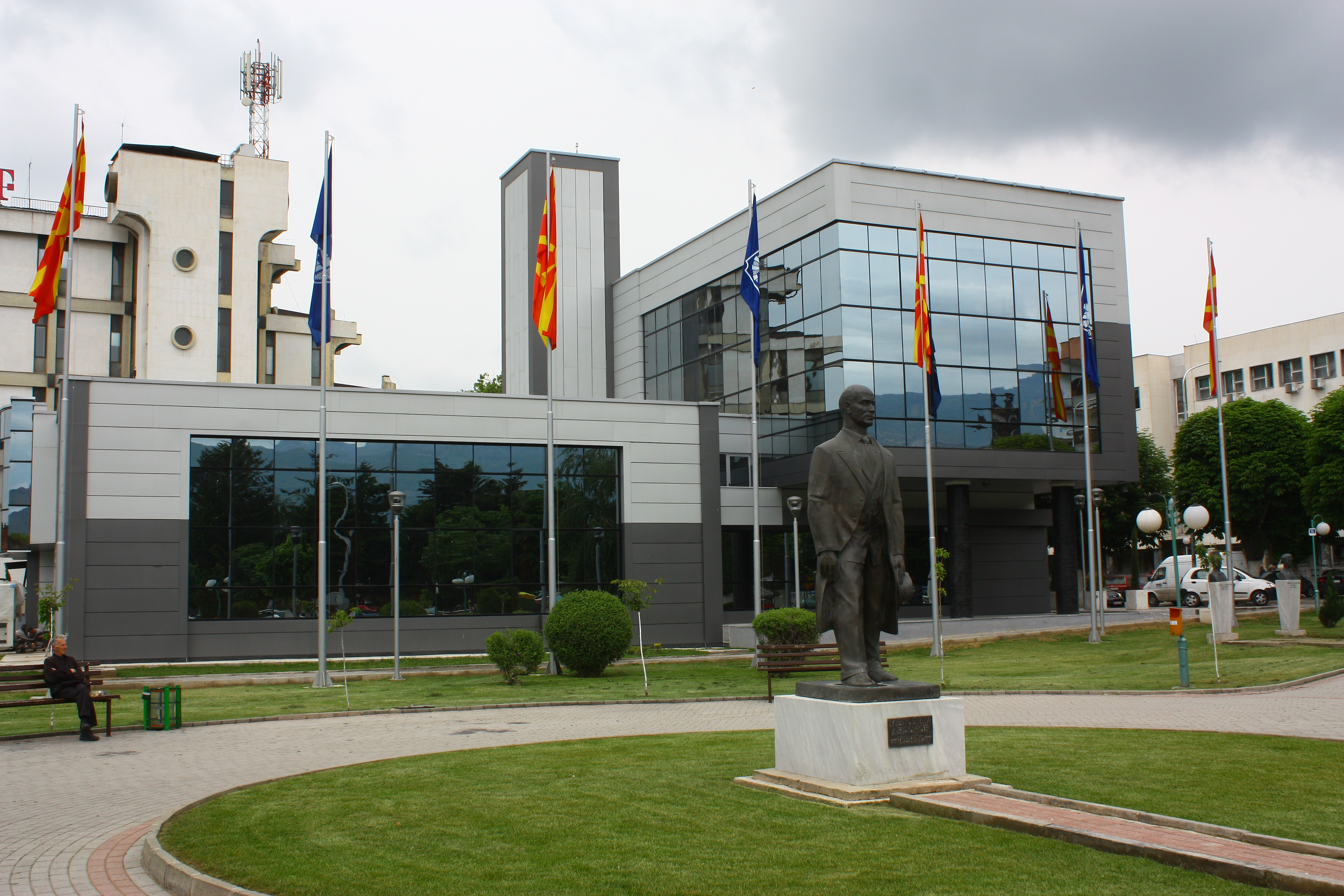 Prilep, Macedonia